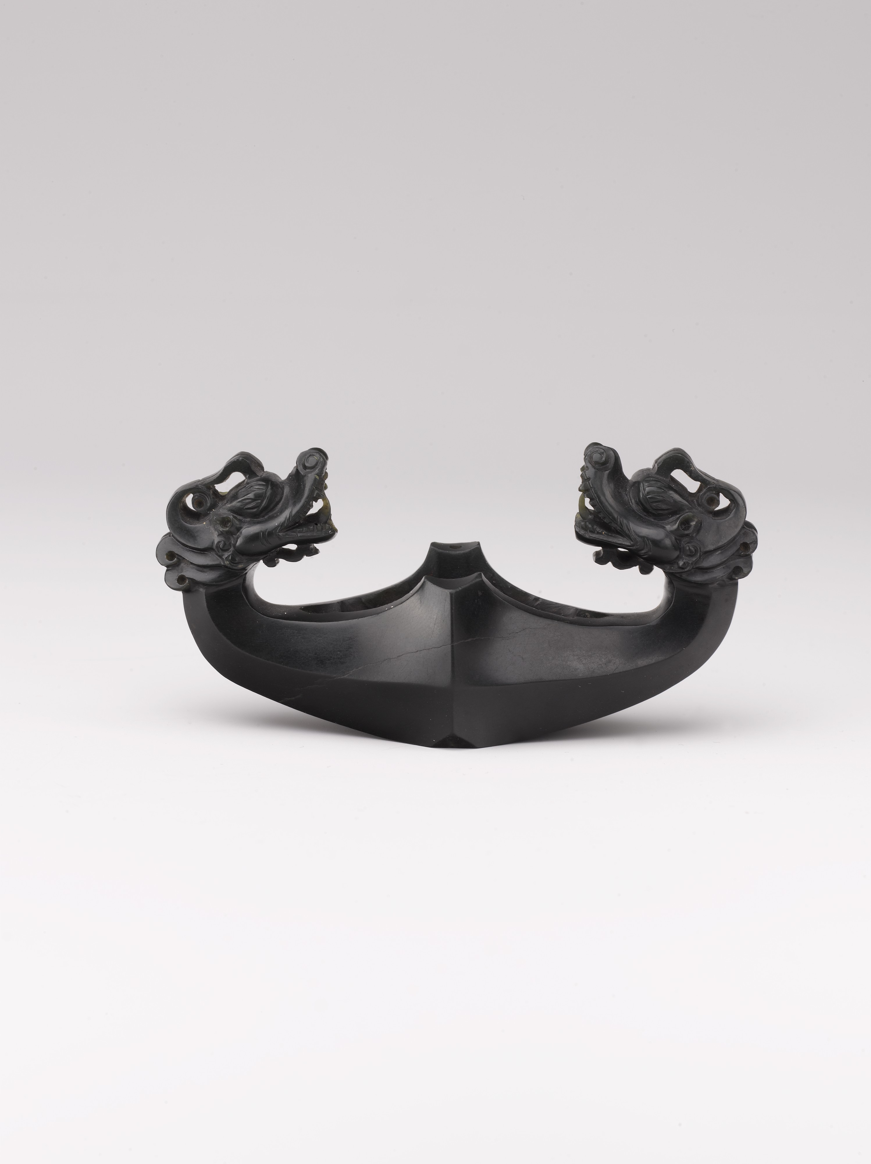 On display at the Metropolitan Museum of Art, a sword guard from the Tumurid period in Central Asia. It is from Central Asia. Made from jade. Accession Number 02.18.765 This file was donated to Wikimedia Commons as part of a project by the Metropolitan Museum of Art. See the Image and Data Resources Open Access Policy